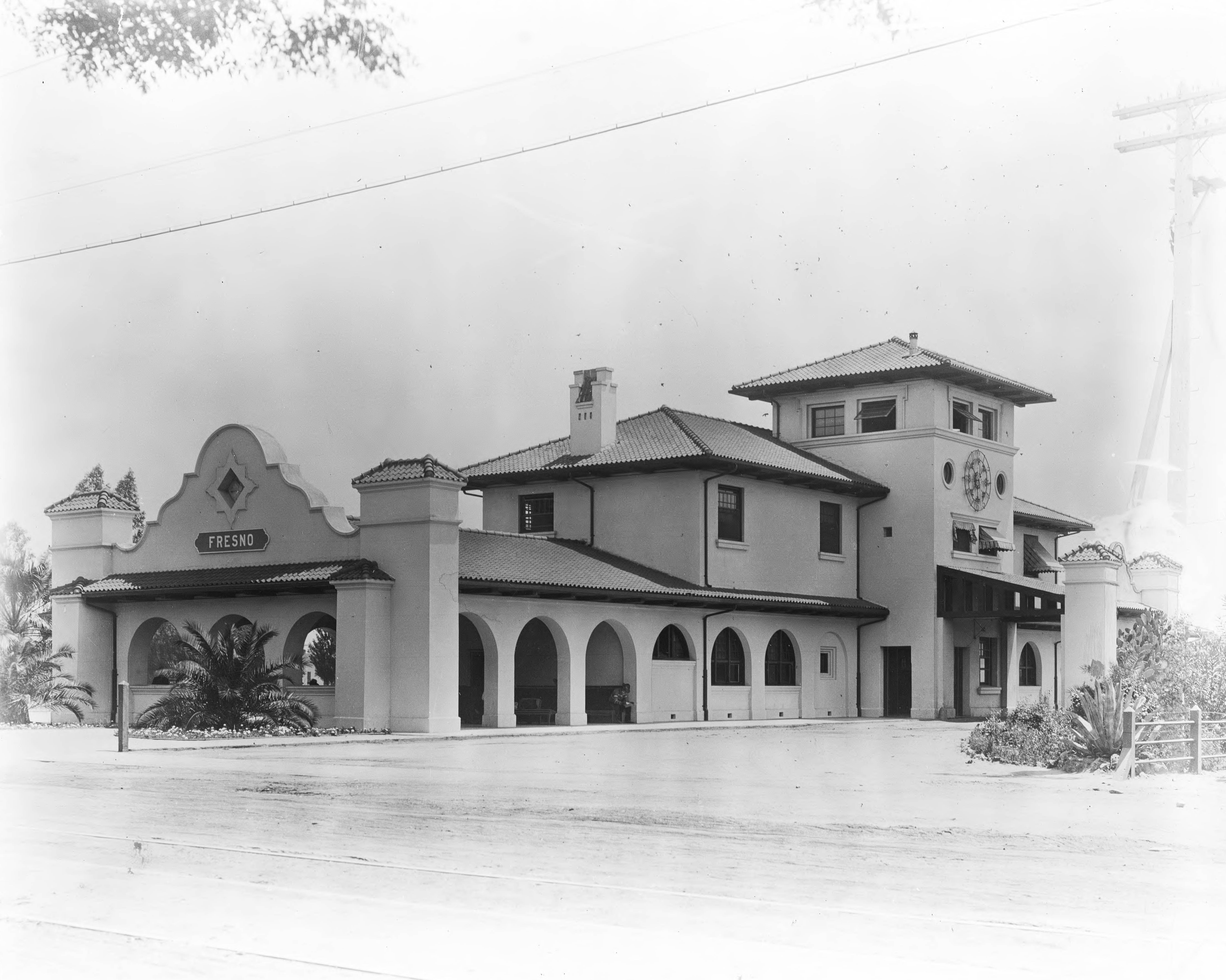 Exterior view of the Santa Fe Depot building in Fresno, ca.1910 Photograph of an exterior view of the Santa Fe Depot building in Fresno, ca.1910. The adobe-like building is shown at center; to the left, an open air arcade offers benches for waiting passengers, while to the right a two- and then a three-story section of the depot is visible, each roof covered with terra cotta tile. A sign on the outside of the arcade reads "Fresno". Railcar tracks can be seen embedded in the street in the foreground.